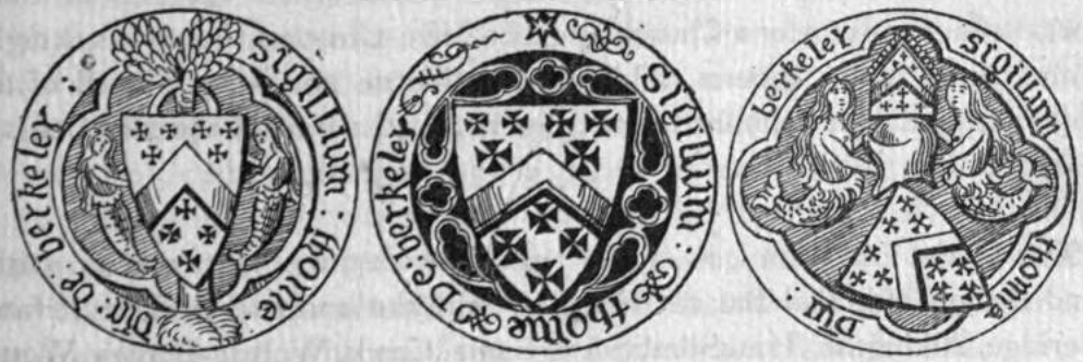 Seals of Thomas Berkeley, 5th Baron Berkeley (Died 1417), used at successive times of his life. The mermaid supporters were his own personal usage. The Berkeley crest of A bishop's mitre, long used by his ancestors, was added to the seal used in his old age.